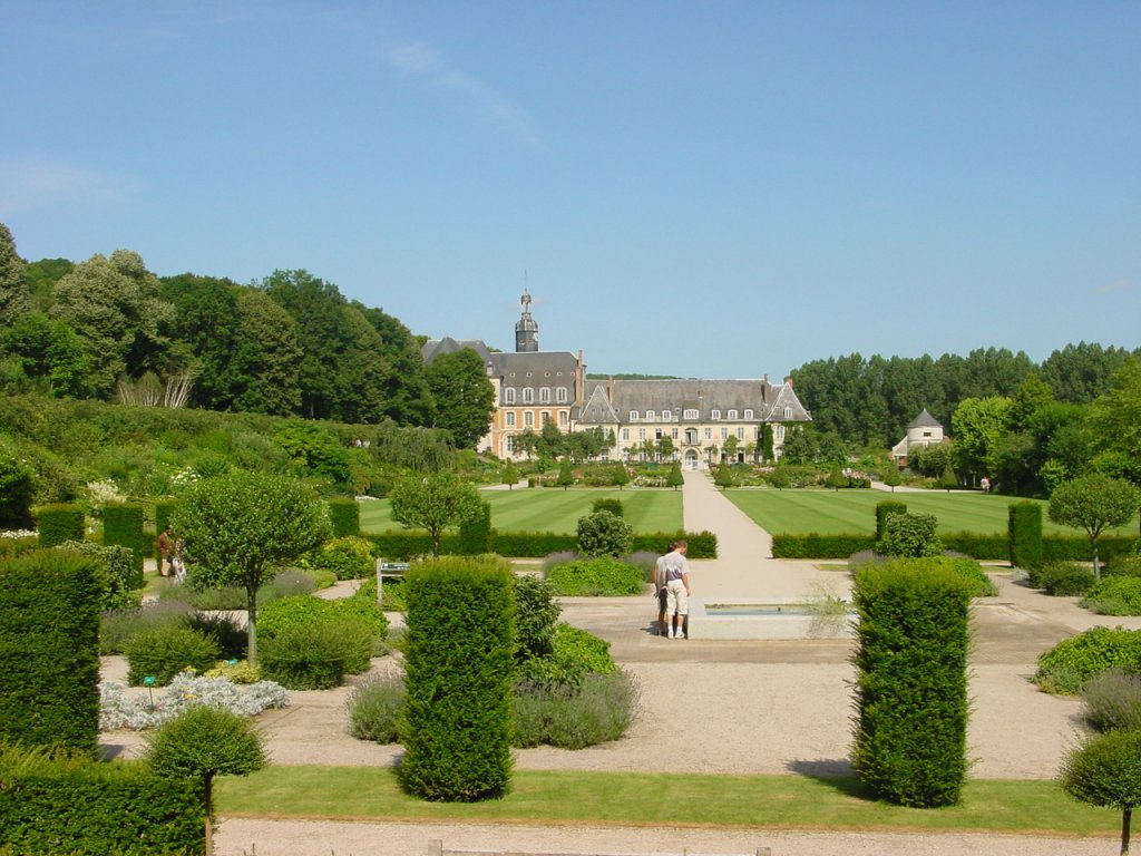 cistercian abbey of Valloires and gardens in Argoules (France)